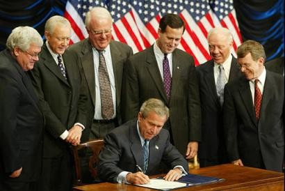 Sponsoring senators and congressmen watch President Bush signing the Partial-Birth Abortion Ban Act, November 2003. Left to right: Rep. Dennis Hastert (R-IL), Sen. Orrin Hatch (R-UT), Rep. James Sensenbrenner (R-WI), Sen. Rick Santorum (R-PA), Rep. Jim Oberstar (D-MN), Sen. Mike DeWine (R-OH). In front, President George W. Bush. Off-camera to the left: Rep. Bart Stupak (D-MI), Rep. Henry Hyde (R-IL), Rep. Steve Chabot (R-OH). Off-camera to the right, Rep. Tom DeLay (R-TX). A slightly different wider-angle image including all these legislators is at File:Signing the Partial-Birth Abortion ban.jpg.